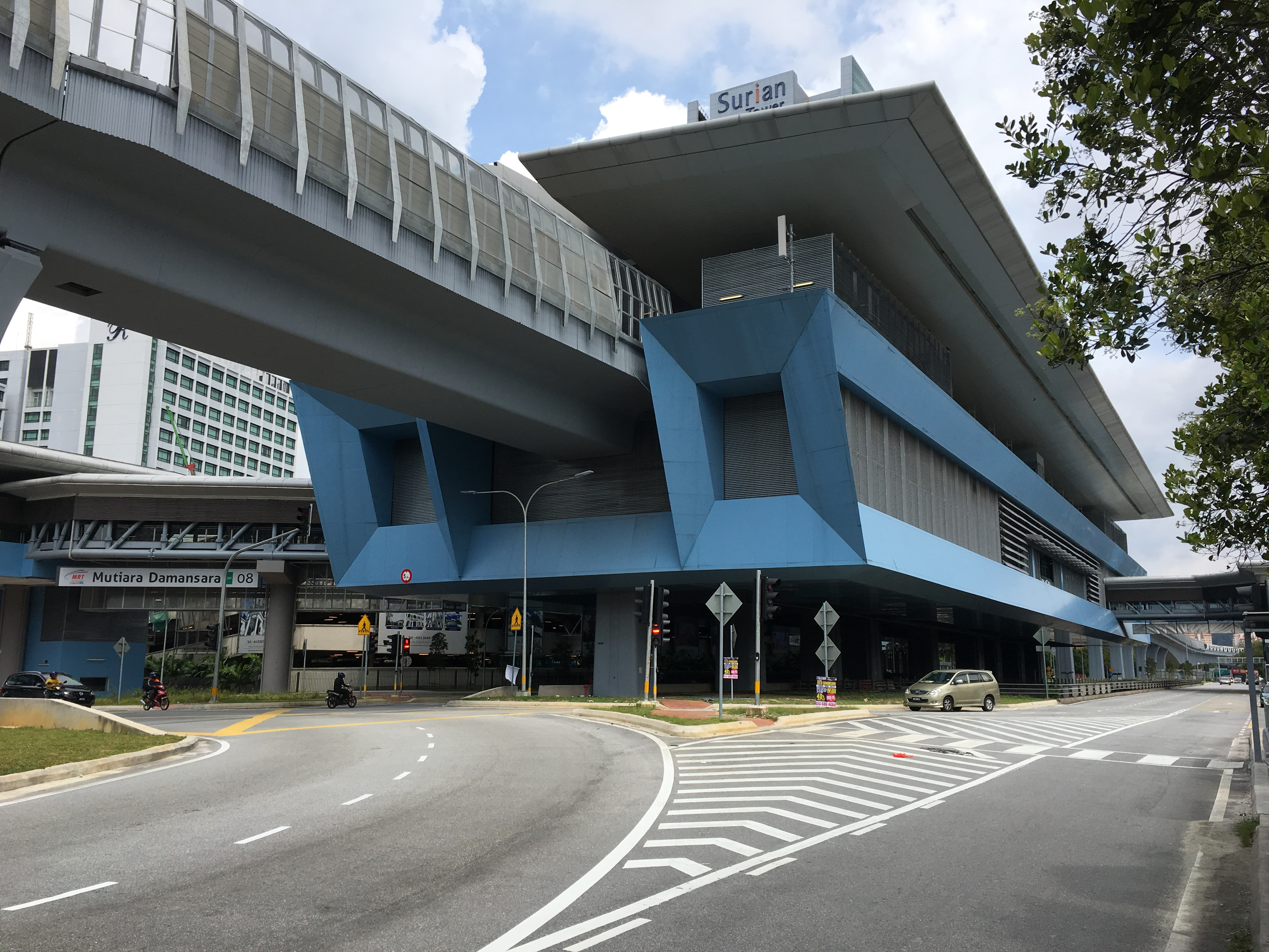 View of the station above Persiaran Surian